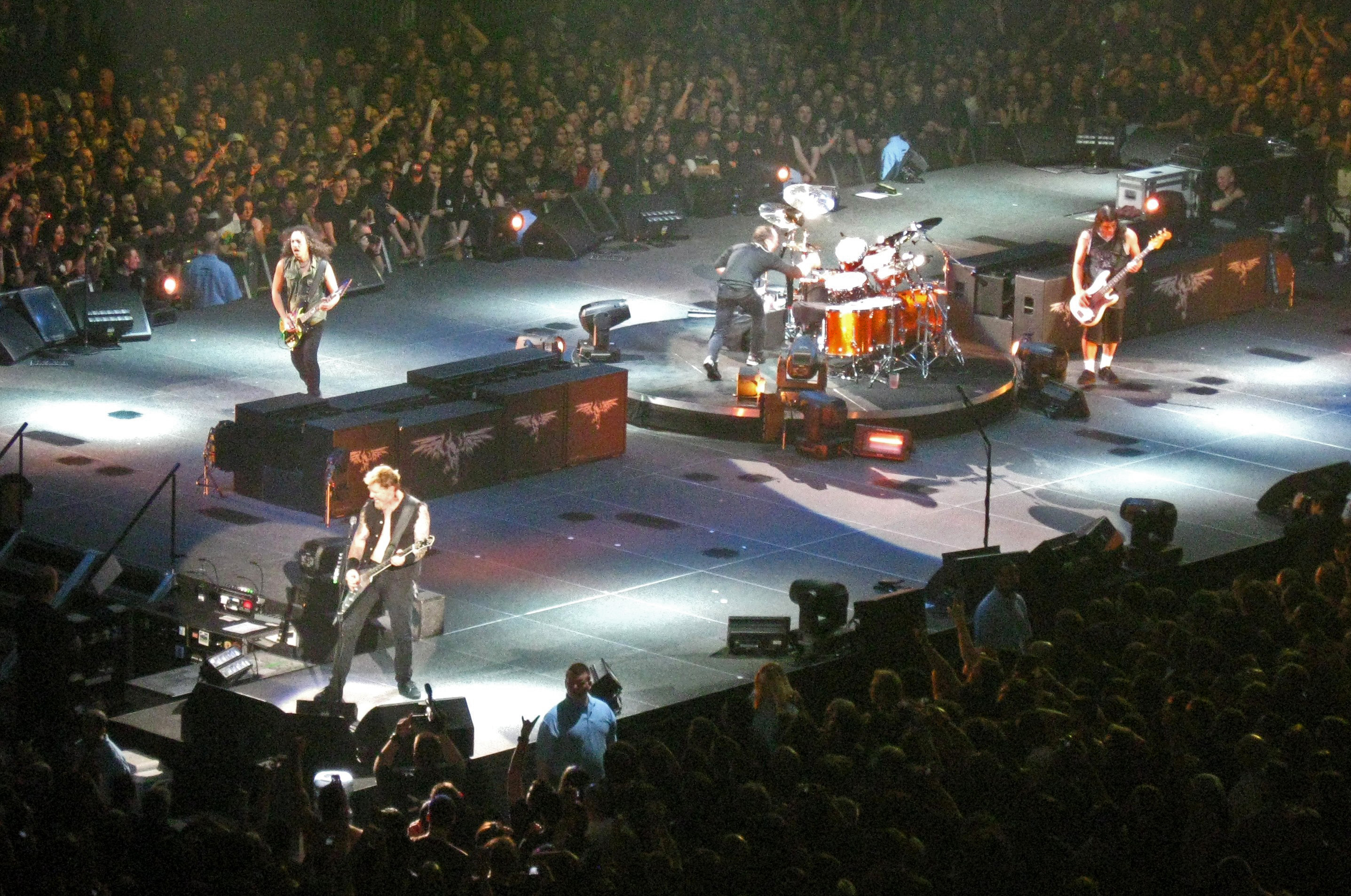 Metallica at the O2 Arena, March 28th 2009